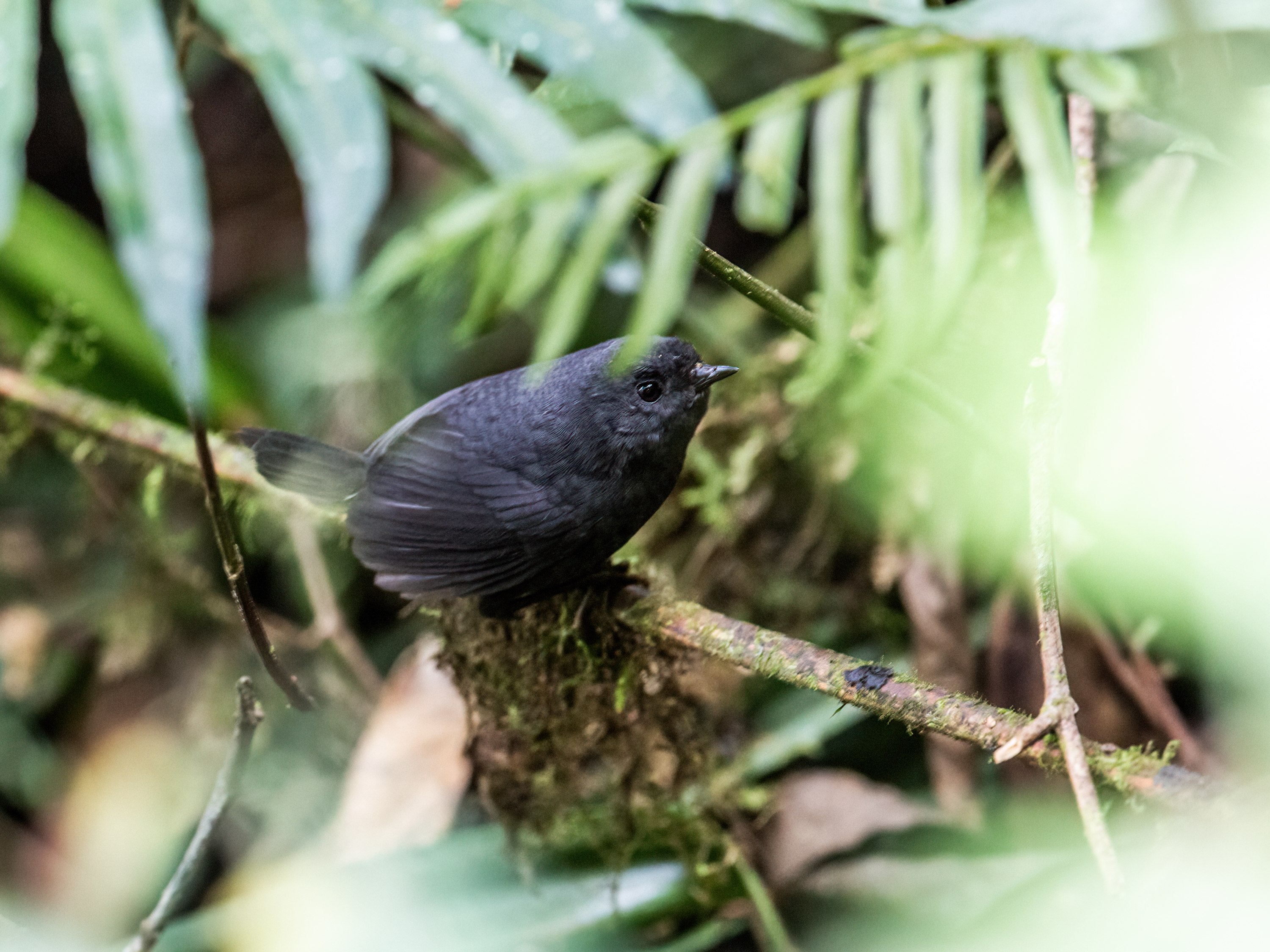 Trilling Tapaculo from Paty Trail, Carpish, Húanuco, Peru